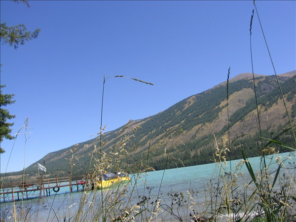 kanas silk road tour